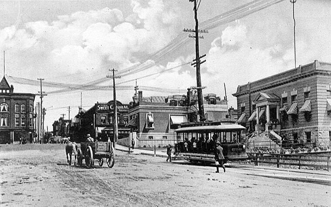 Main & Bridge Street, Hull, Quebec.